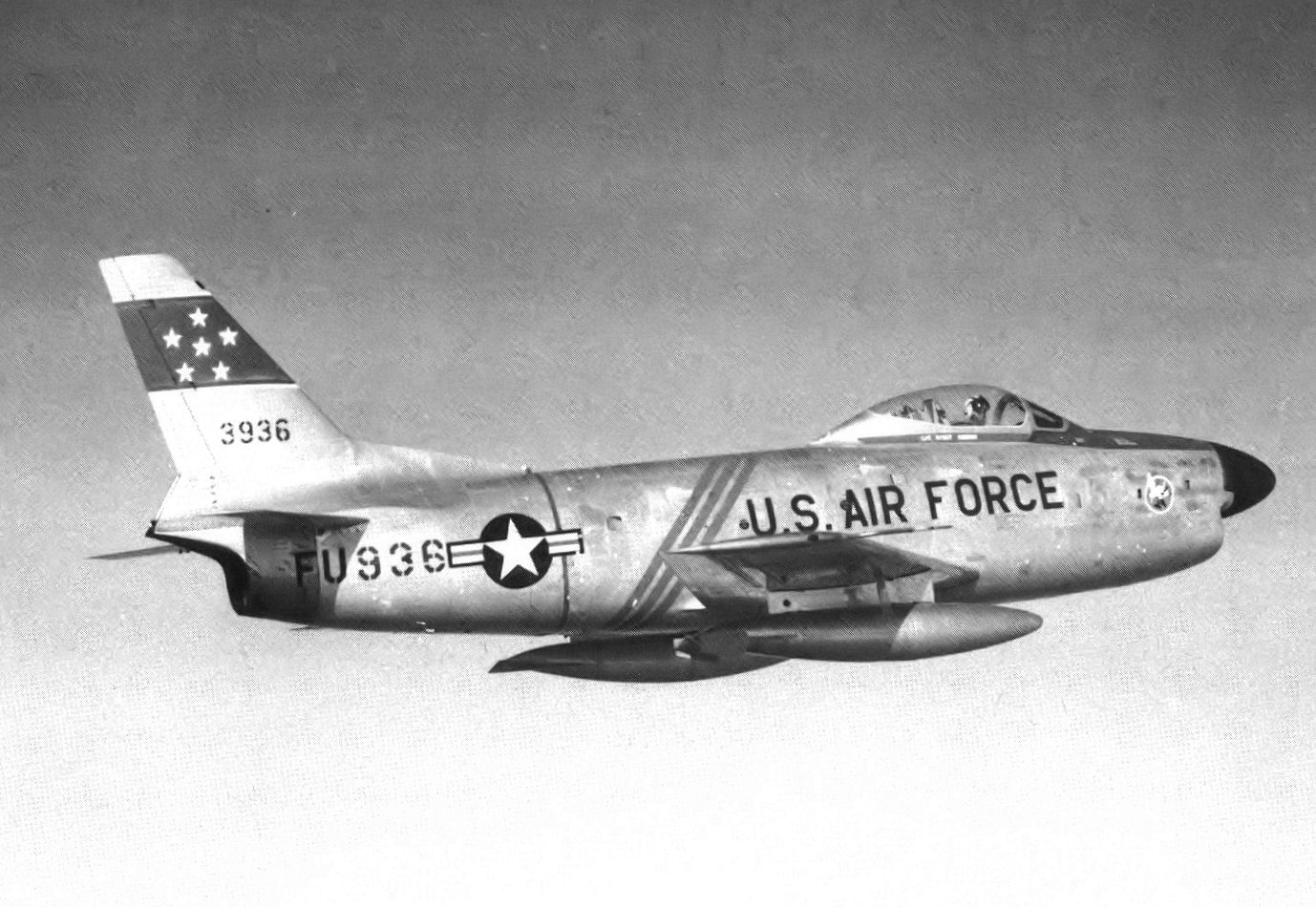 539th Fighter-Interceptor Squadron North American F-86D-45-NA Sabre 52-3936, Stewart AFB, New York, 1954